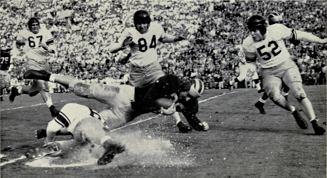 Photograph of Don Dufek being tackled by a player for the California Golden Bears football team in the 1951 Rose Bowl This work is in the public domain because it was published in the United States between 1923 and 1963 and although there may or may not have been a copyright notice, the copyright was not renewed. Unless its author has been dead for the required period, it is copyrighted in the countries or areas that do not apply the rule of the shorter term for US works, such as Canada (50 pma), Mainland China (50 pma, not Hong Kong or Macao), Germany (70 pma), Mexico (100 pma), Switzerland (70 pma), and other countries with individual treaties. See Commons:Hirtle chart for further explanation. This work is in the public domain in the United States because it was published in the United States between 1923 and 1977 without a copyright notice. See Commons:Hirtle chart for further explanation. Note that it may still be copyrighted in jurisdictions that do not apply the rule of the shorter term for US works (depending on the date of the author's death), such as Canada (50 p.m.a.), Mainland China (50 p.m.a., not Hong Kong or Macao), Germany (70 p.m.a.), Mexico (100 p.m.a.), Switzerland (70 p.m.a.), and other countries with individual treaties.